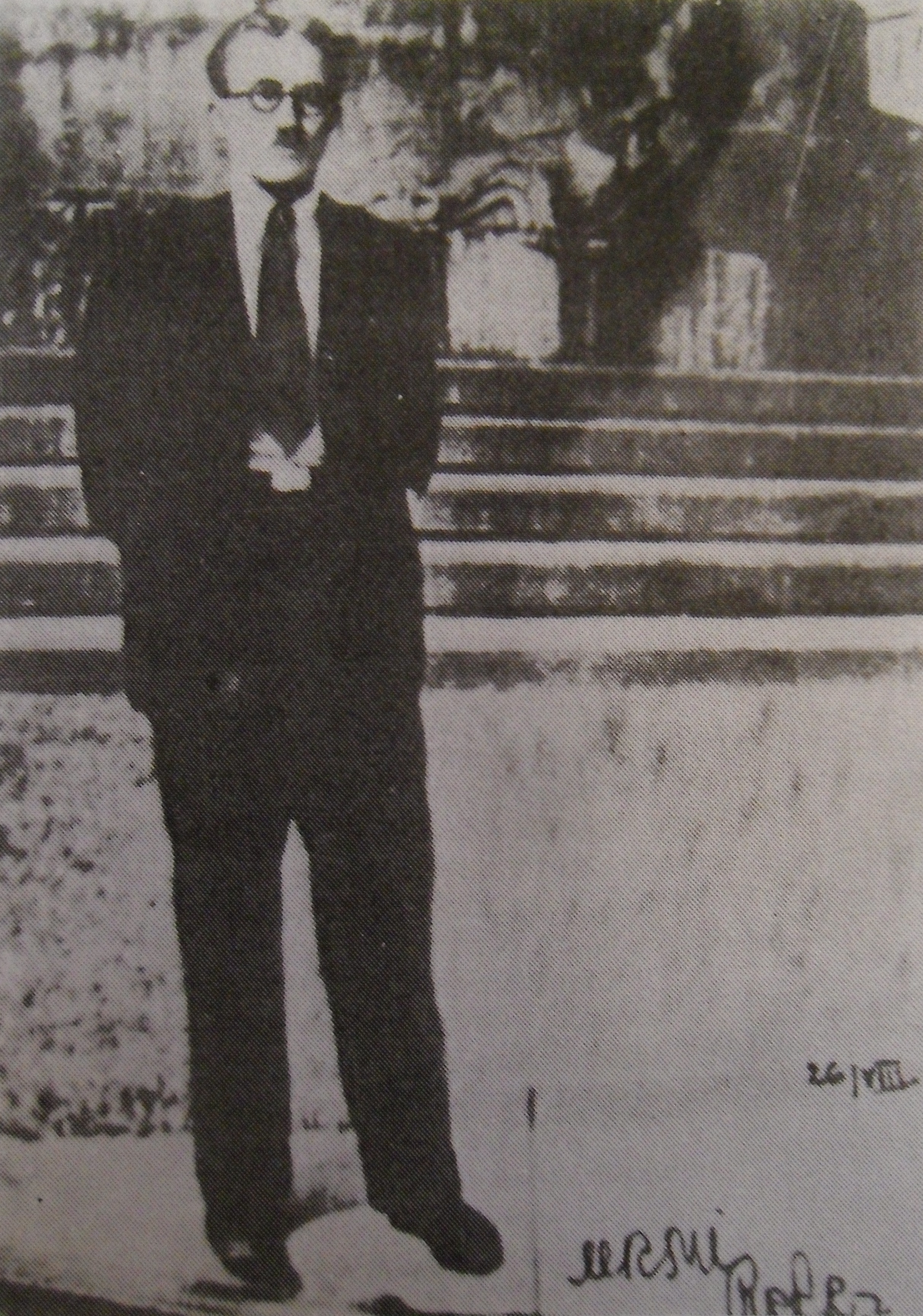 Ratko Pavlović u Pragu 1936. godine, ispred spomenika Janu Husu